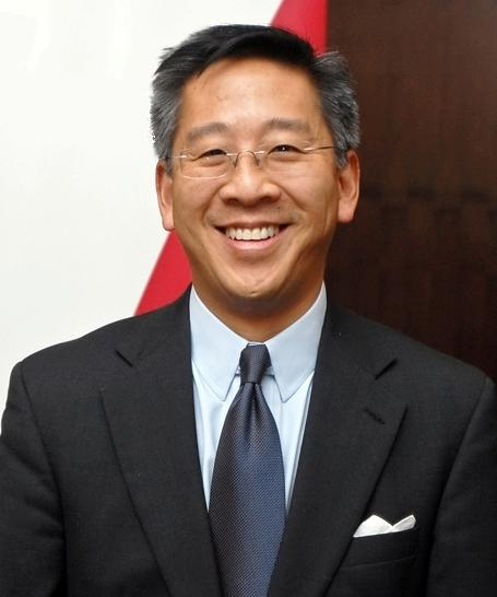 A Picture of Donald Lu